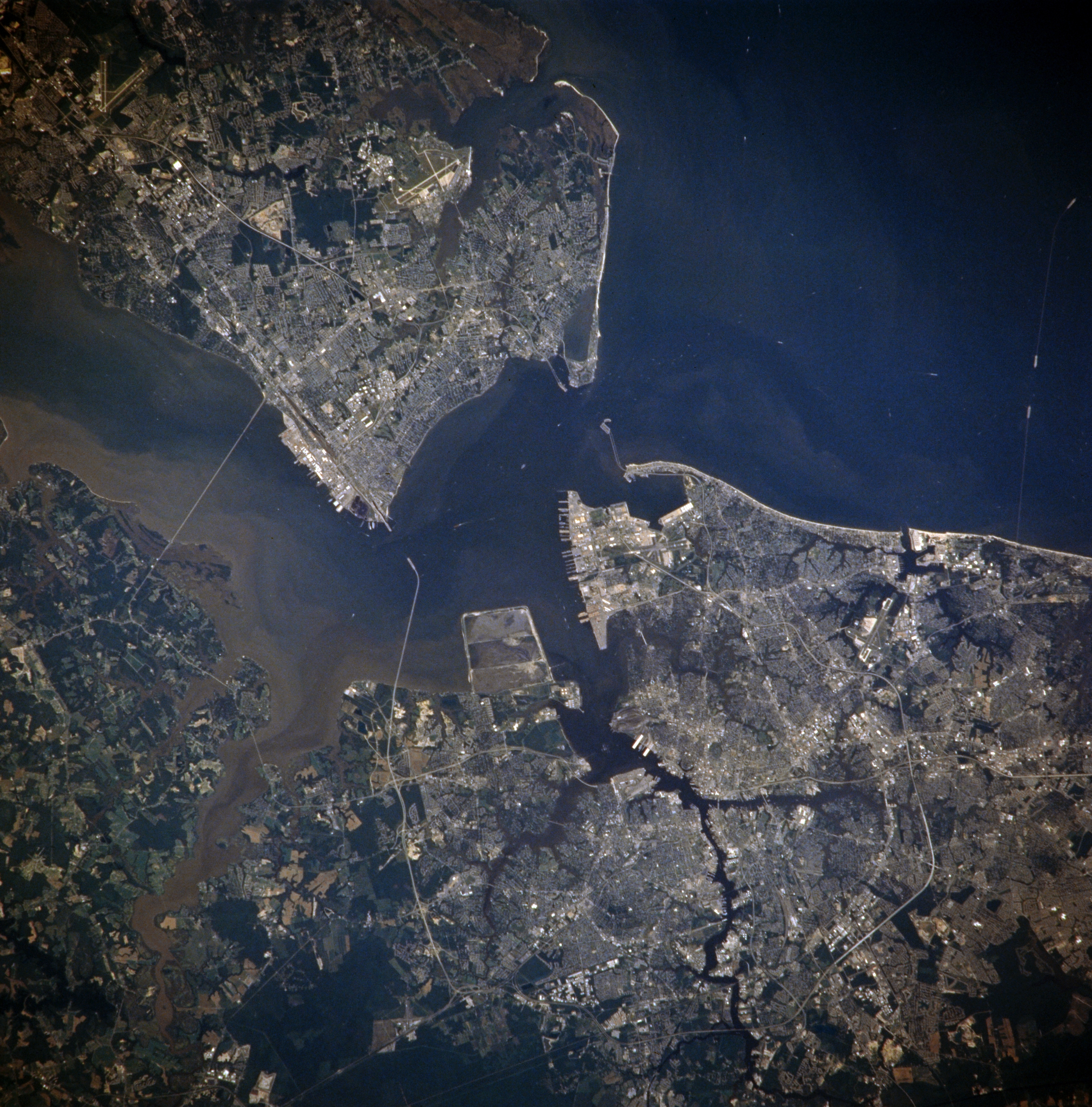 Rotated to aprox. mag. north. Newport News is seen at the upper left.